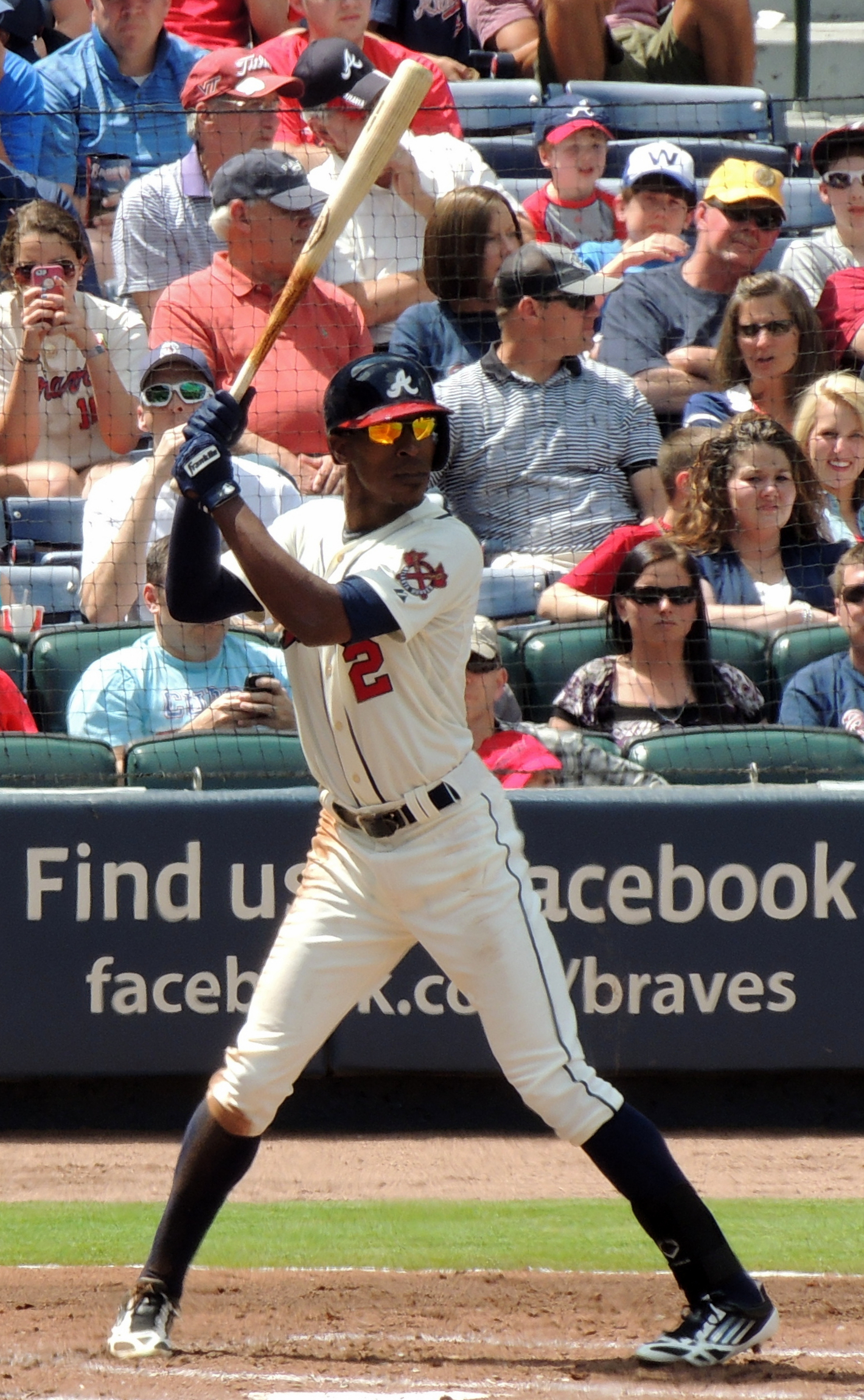 B. J. Upton